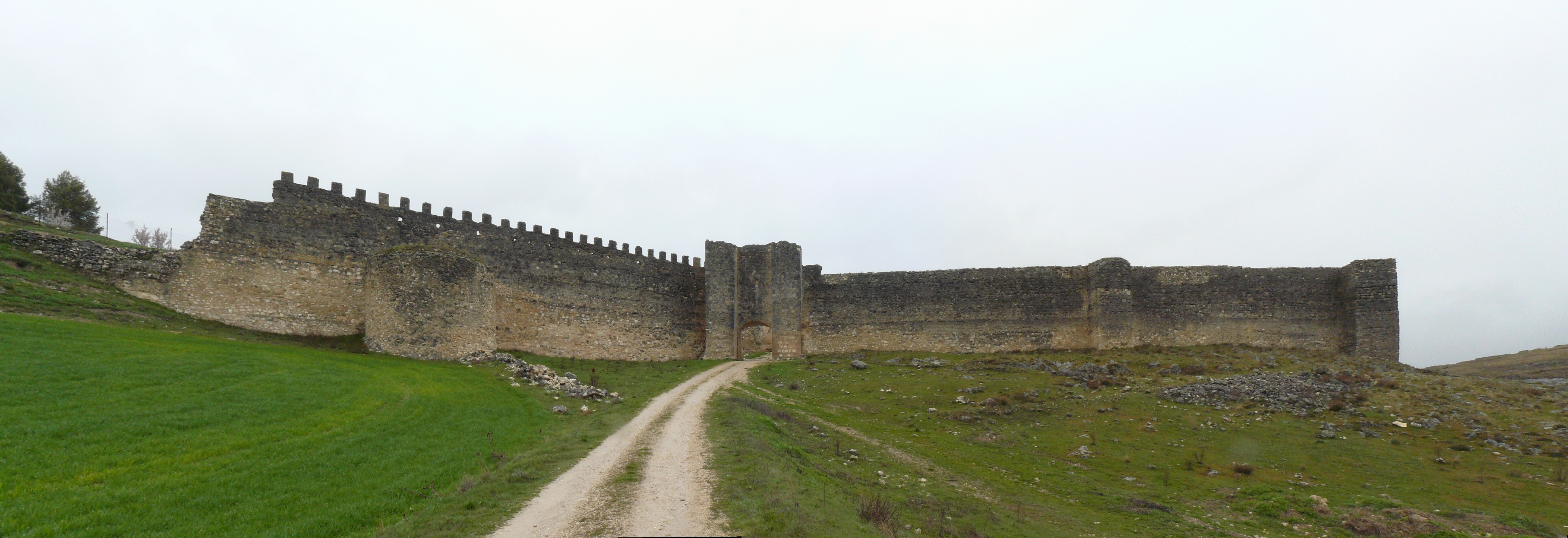 Medieval walls of Fuentidueña (province of Segovia, Spain).